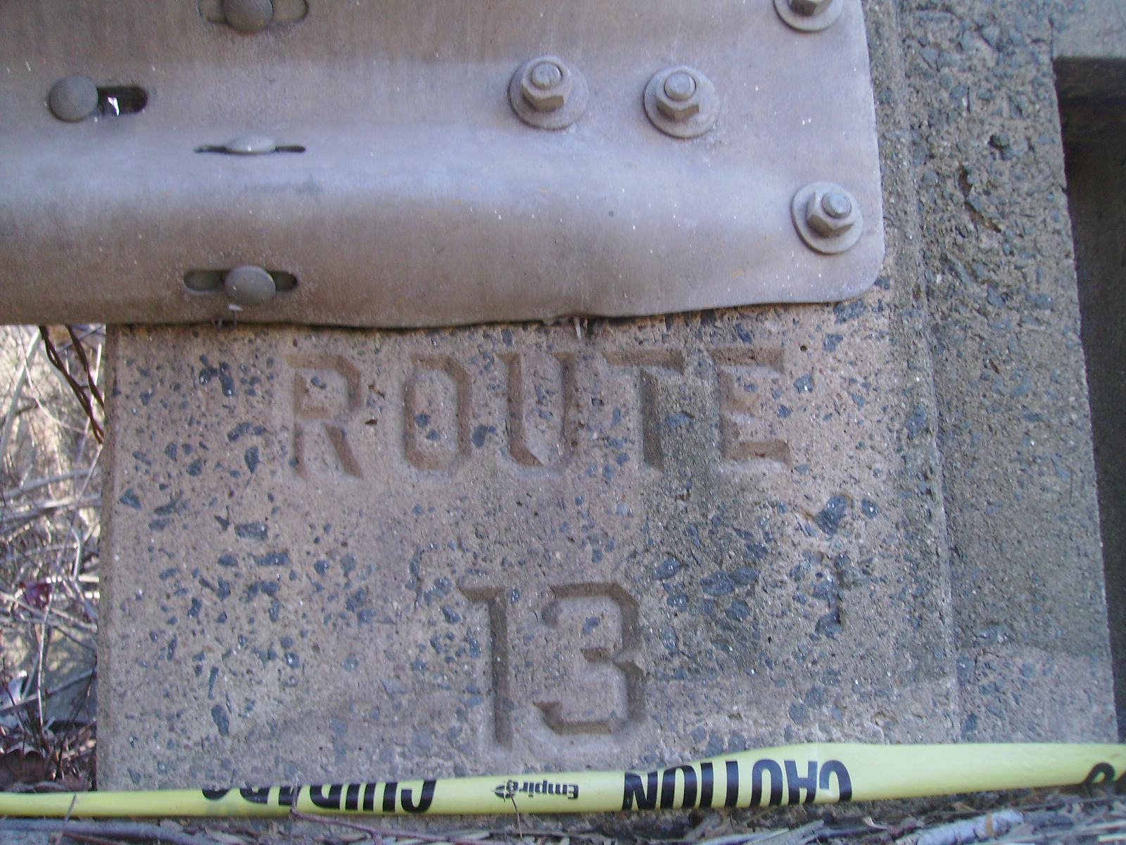 One of two known indentation stamps on state bridges denoting State Highway Route 13 in Kingston. Both bridges are stamped with 1919 as their construction, as Route 27 was not assigned until 1927.